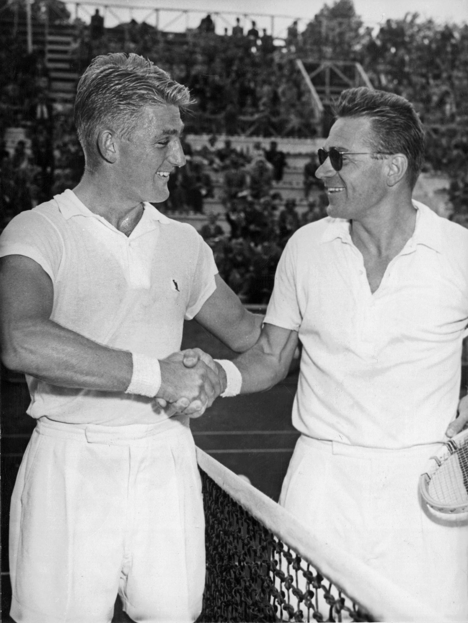 Australian tennis player Lew Hoad (l) congratulates Jaroslav Drobny (r), playing for Egypt, after his victory in the final of the 1953 Italian Open in Rome.